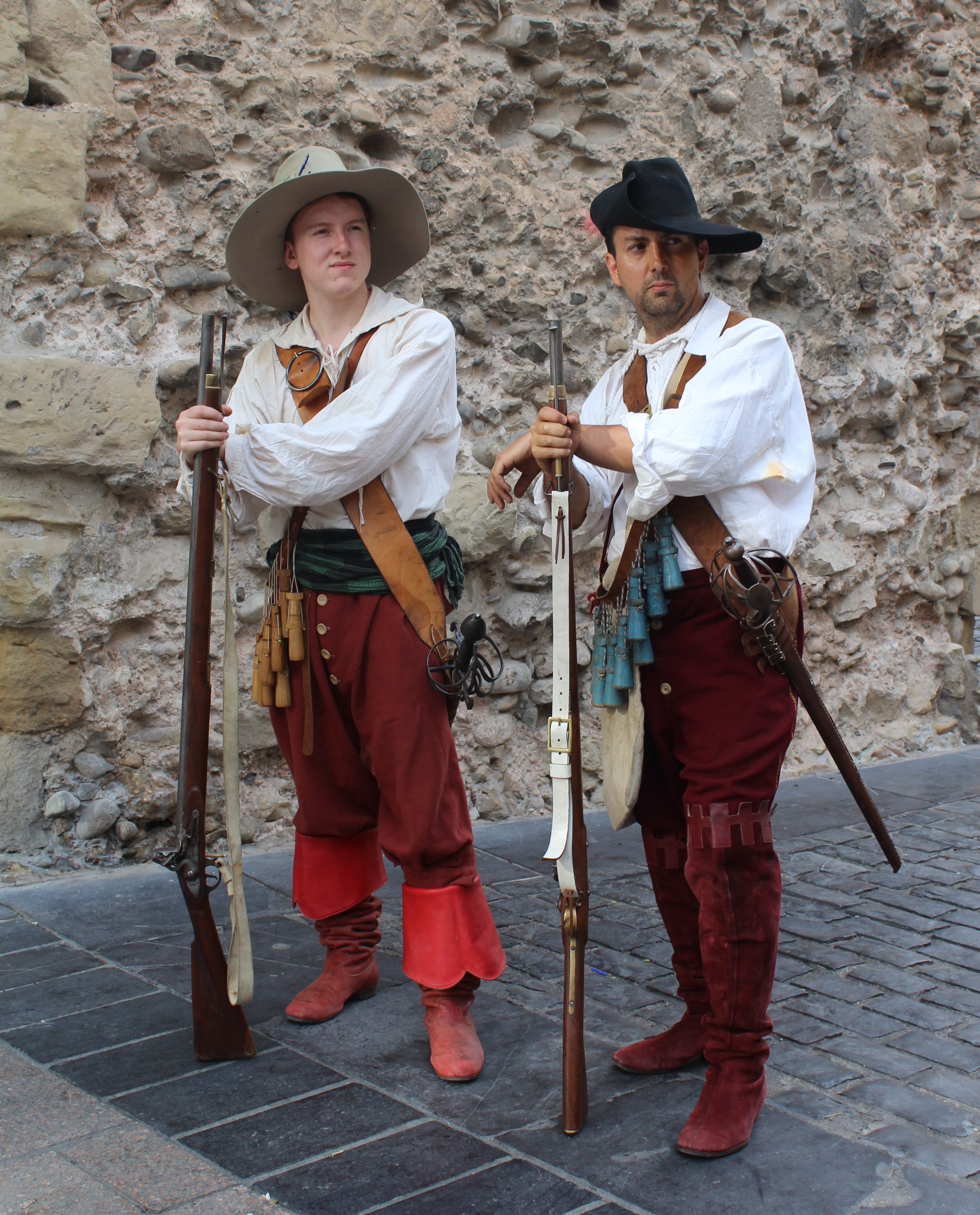 Extras dressed and equipped as Castilian soldiers in a reenactment of the 1521 French siege of Logroño during the festival of San Bernabé